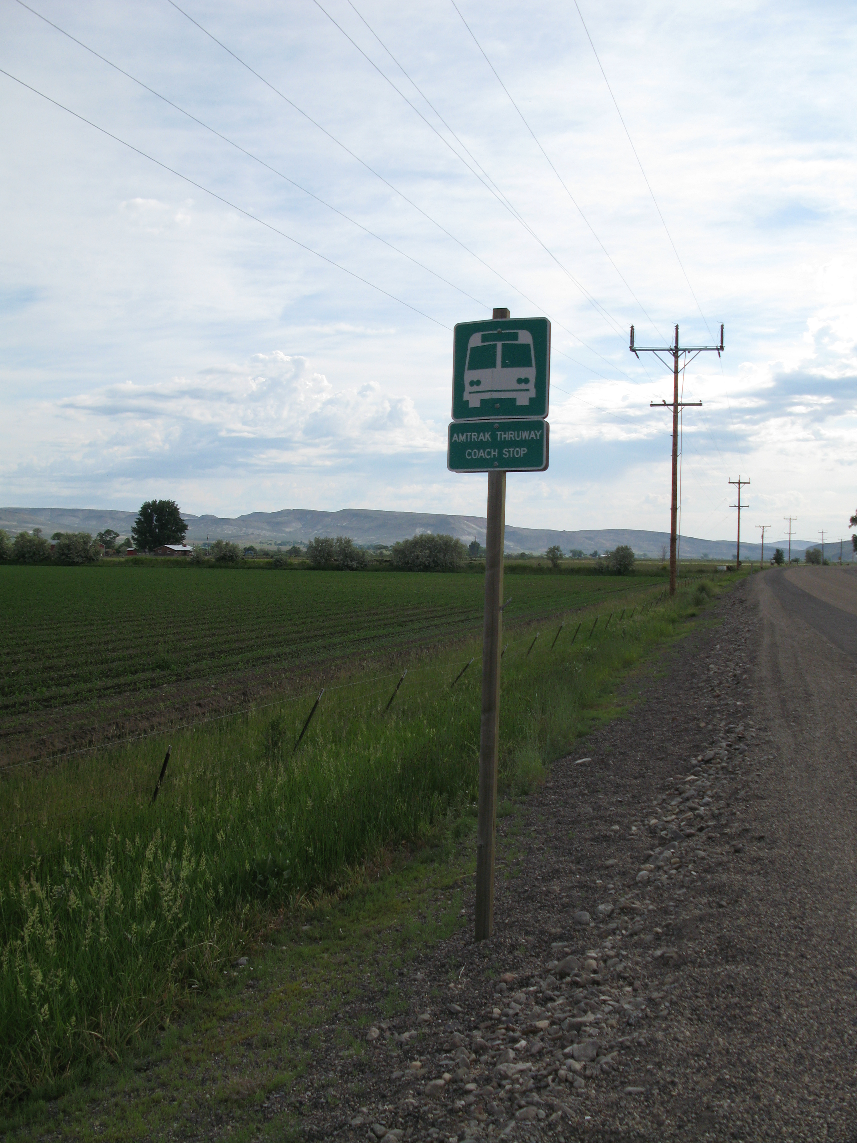 The Eastern POINT offers daily roundtrip service between Bend, Brothers, Hampton, Riley, Burns, Buchanan, Drewsey Jct., Juntura, Harper, Vale, and Ontario, Oregon. Passengers interested in boarding in Harper should wait in front of the gas station/restaurant across the highway from this sign. Information about the Eastern POINT including stops, schedule, tickets, and fare can be found here